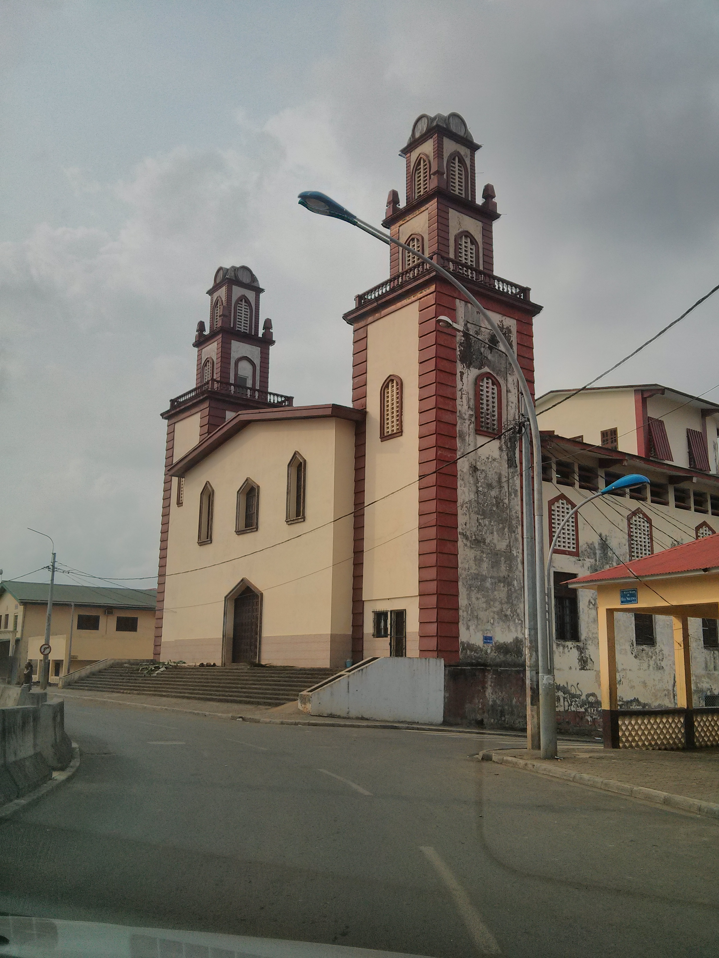 Saint Francis Xavier Parish, under the leadership of the Salesians, in the Ela Nguema Neighborhood, a barrio of Malabo